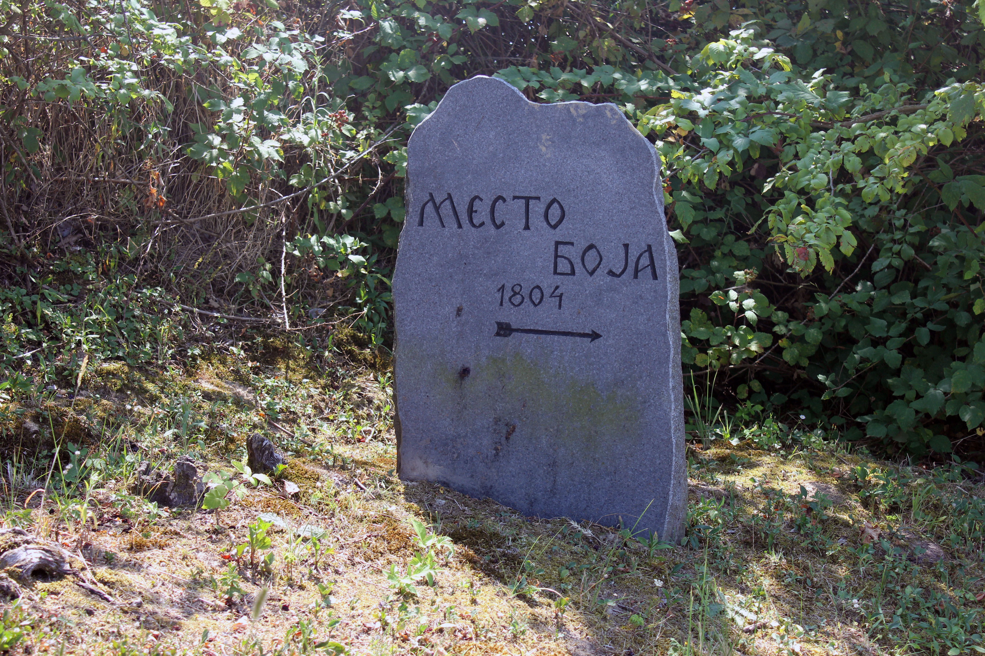 Battle of Čokešina direction.